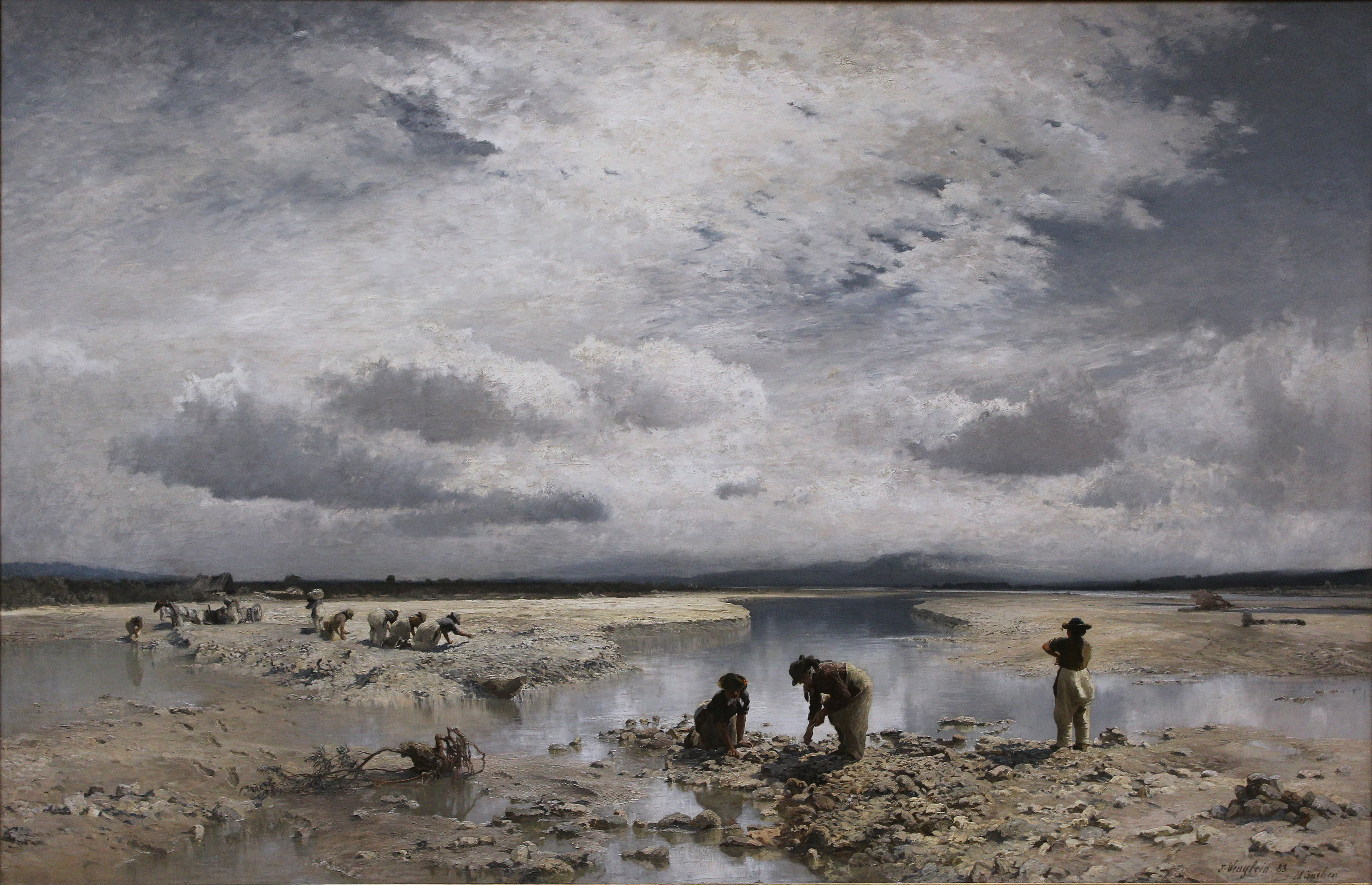 Women Collecting Limestone from the Bed of the Isar near Tölz